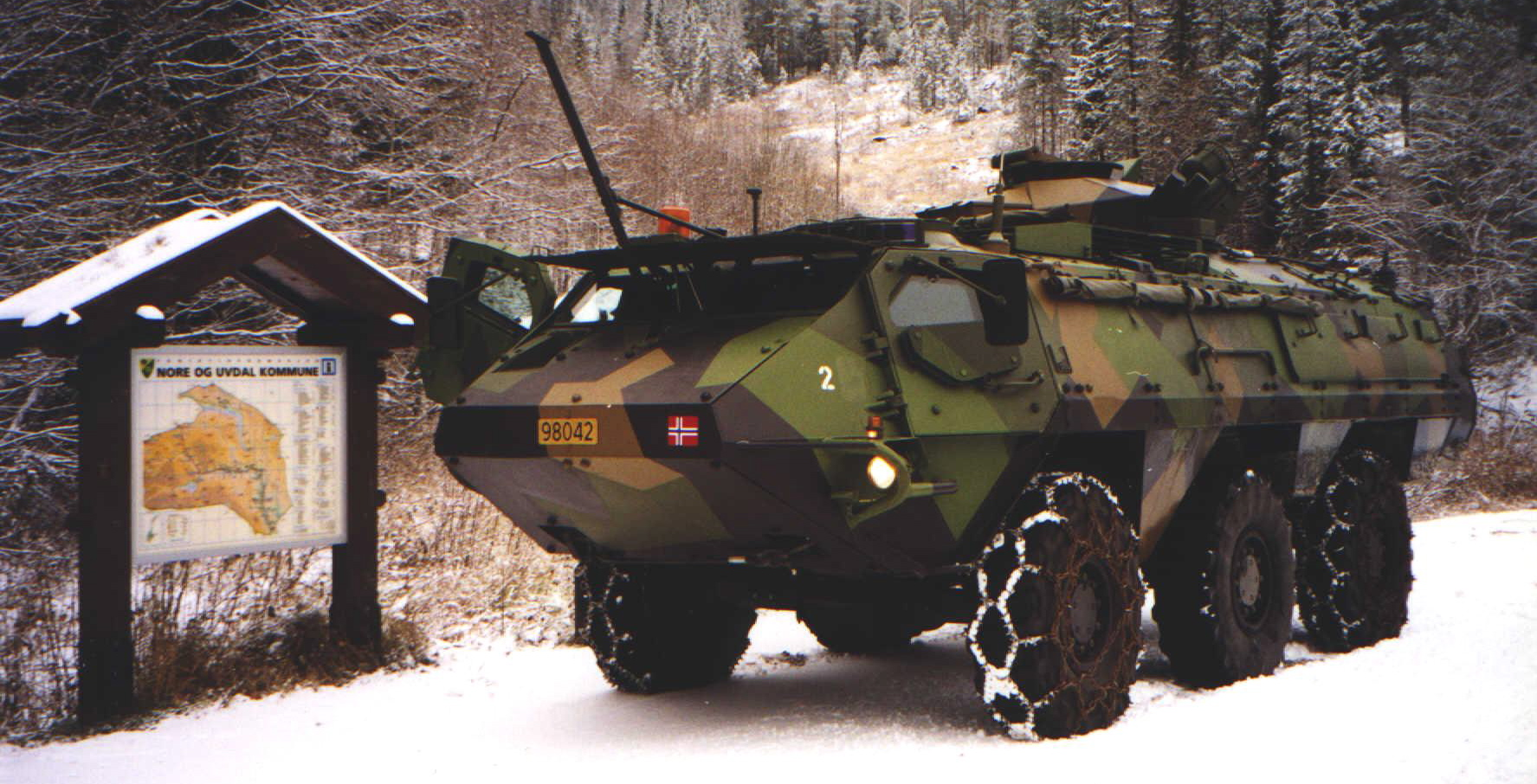 Picture of SISU XA-186 taken by myself H. Dahlmo 01:35, 22 October 2006 (UTC) in 1997.